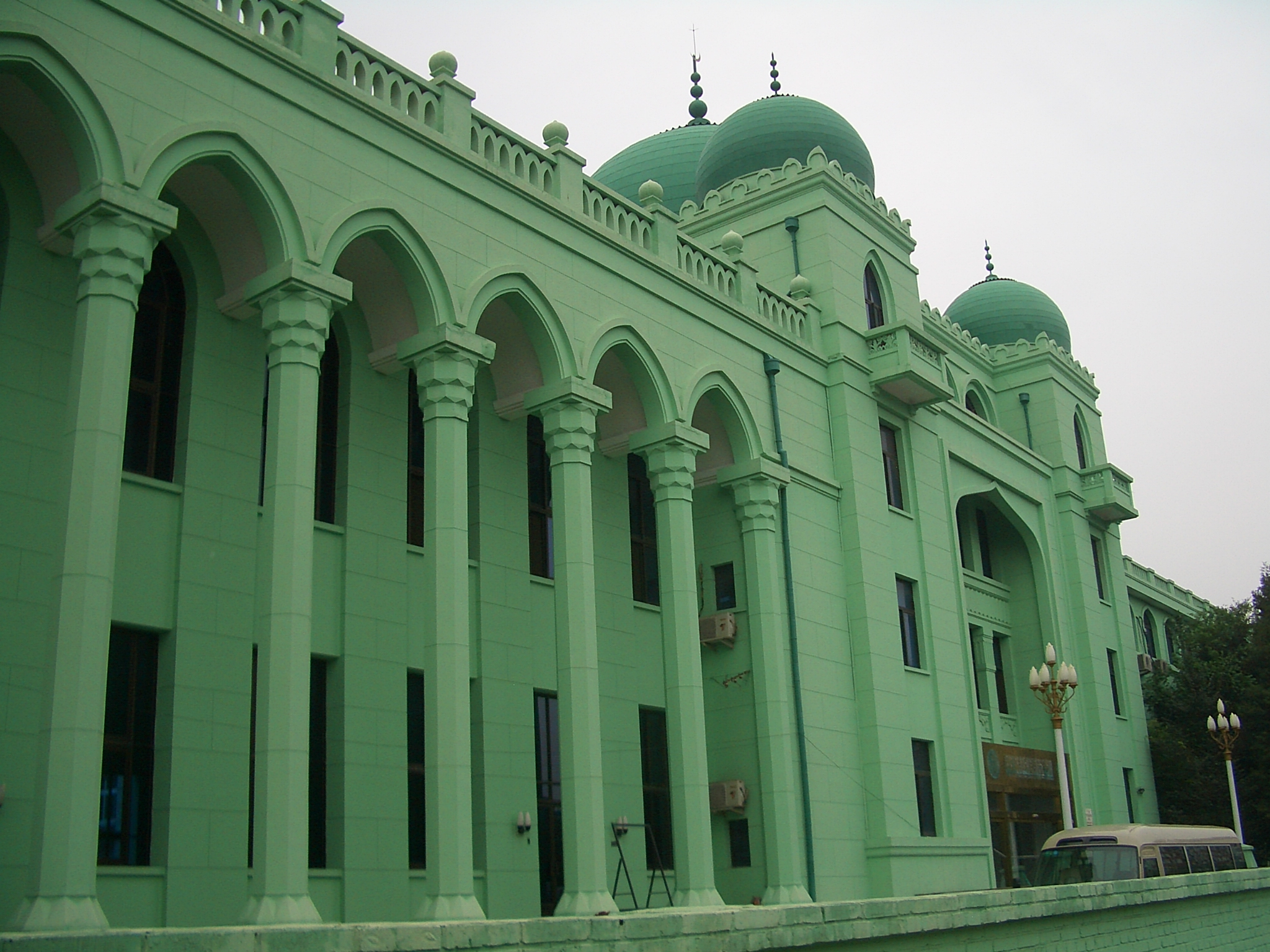 Building of the Islamic Association of China (a national Islamic association) in Beijing, a few blocks east of Niujie Mosque